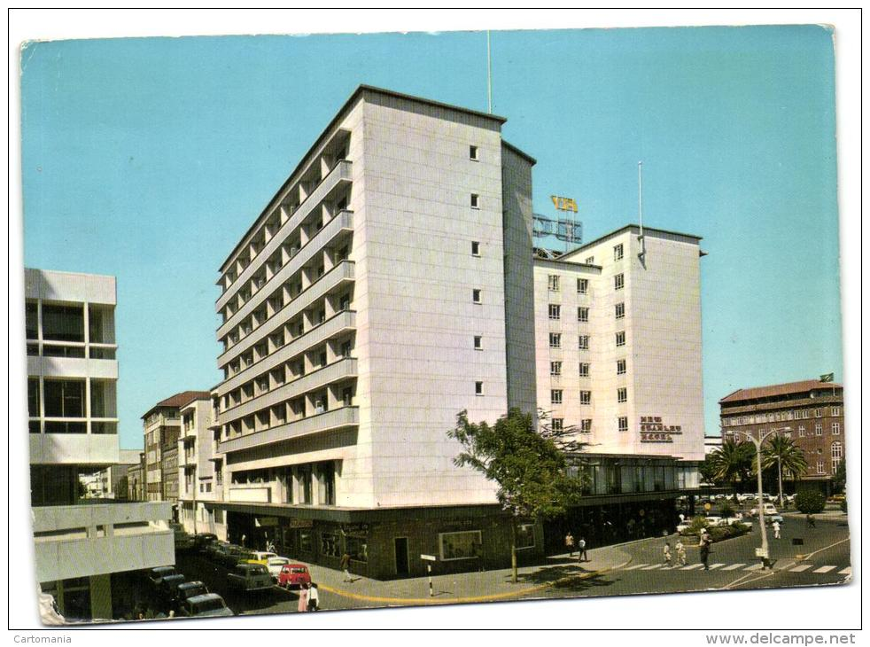 New Stanley Hotel c1960